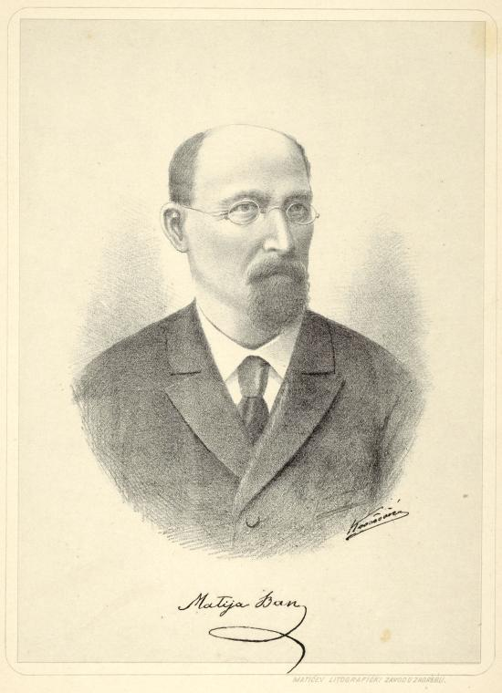 Croatian writer Matija Ban (1818-1903). The picture from "Album zaslužnih Hrvata XIX. stoljeća : 150 životopisa, slika i vlastoručnih podpisa" (editor Milan Grlović) printed in Zagreb in 1898-1900.